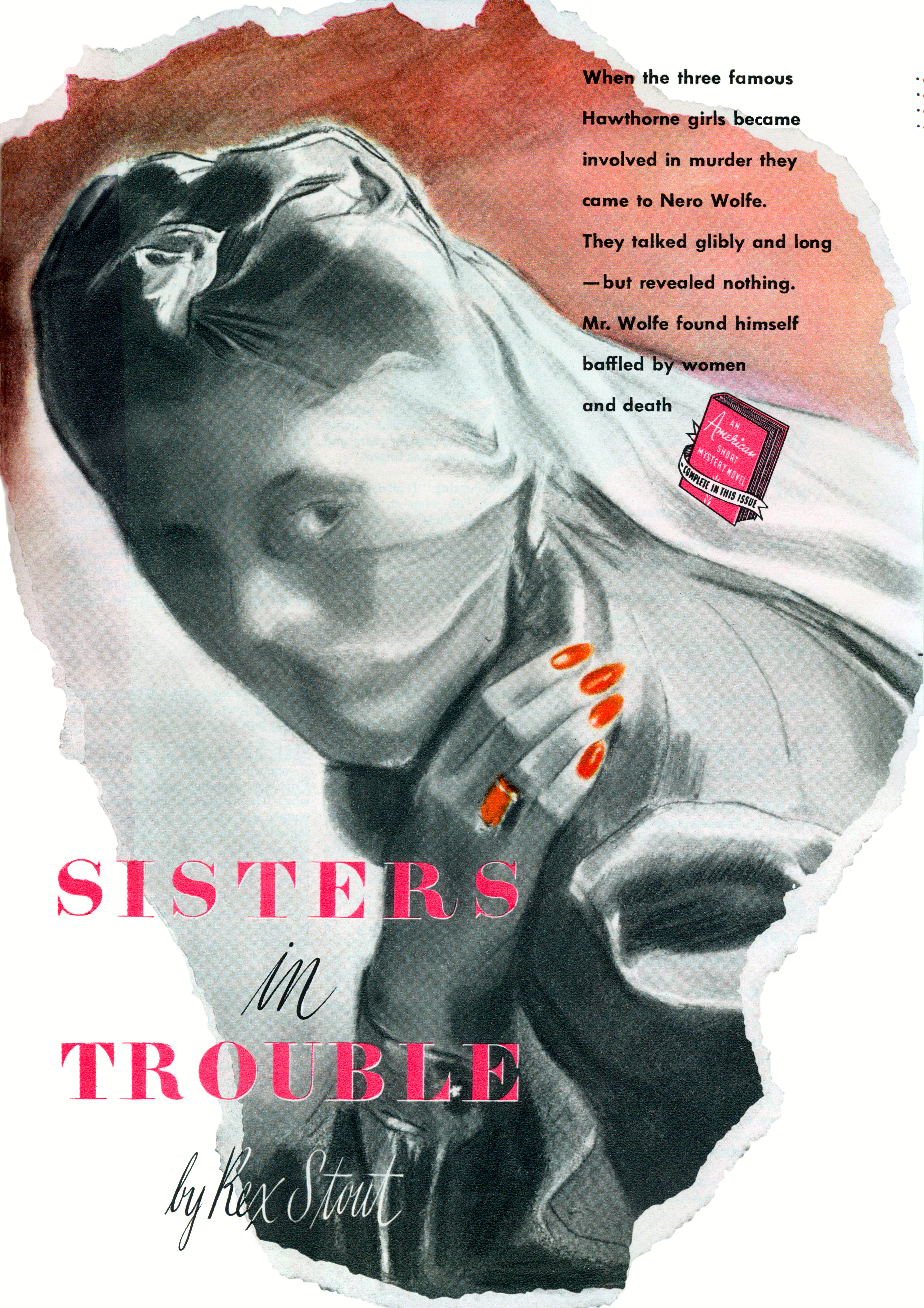 Lead illustration from The American Magazine abridged printing of Where There's a Will (1940), a Nero Wolfe novel by Rex Stout, titled "Sisters in Trouble"